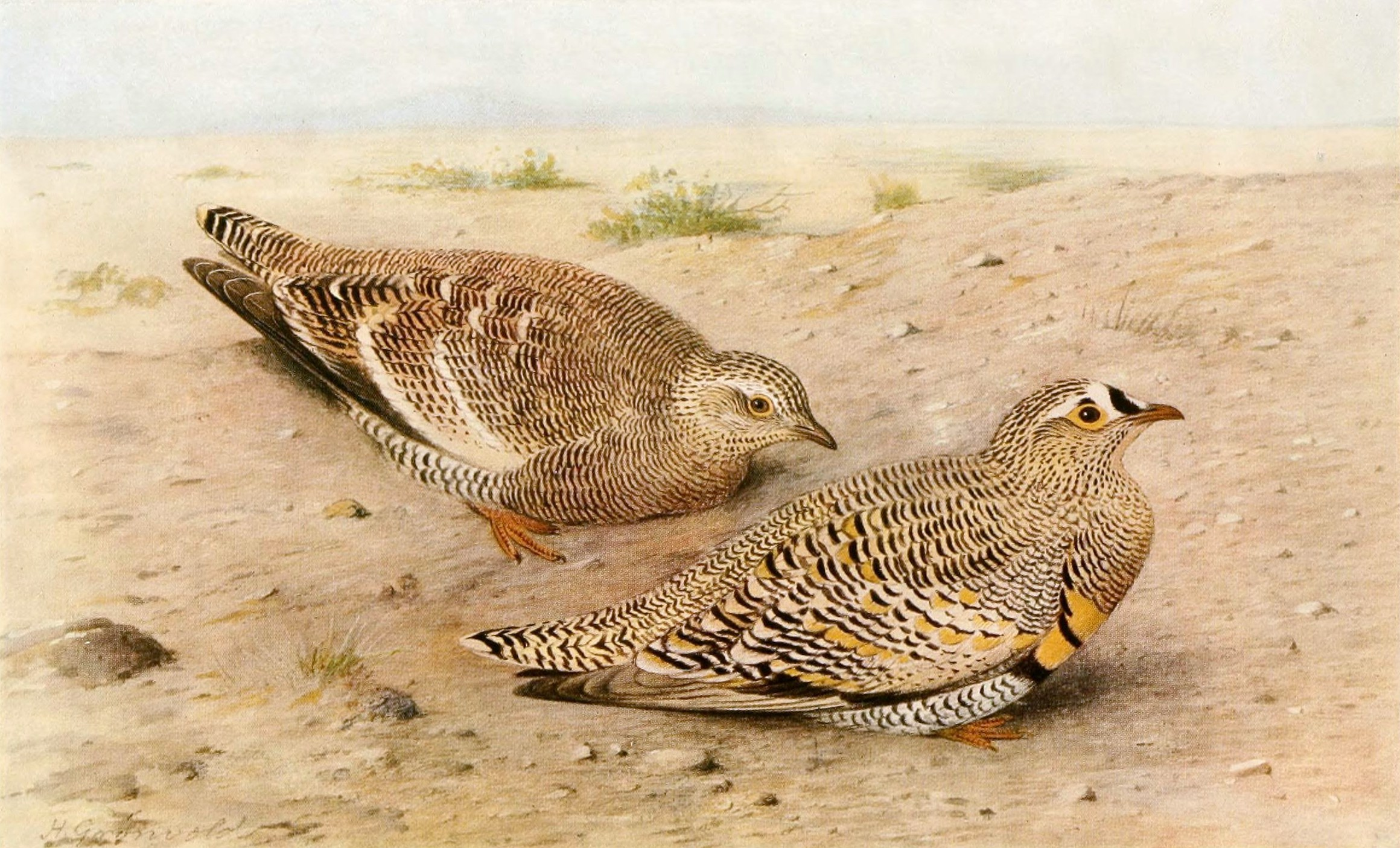 The Close-bared Sand-grouse Pterocles lichtensteini arabicus = Pterocles lichtensteinii arabicus (Subspecies of Lichtenstein's Sandgrouse)